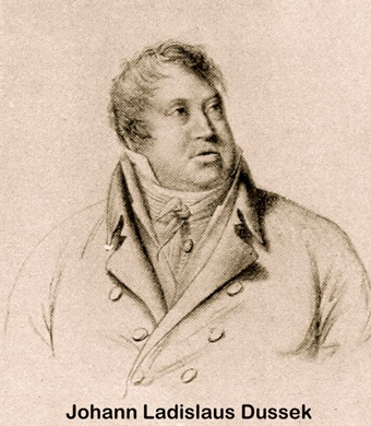 An 1810 portrait of Bohemian composer Jan Ladislav Dussek